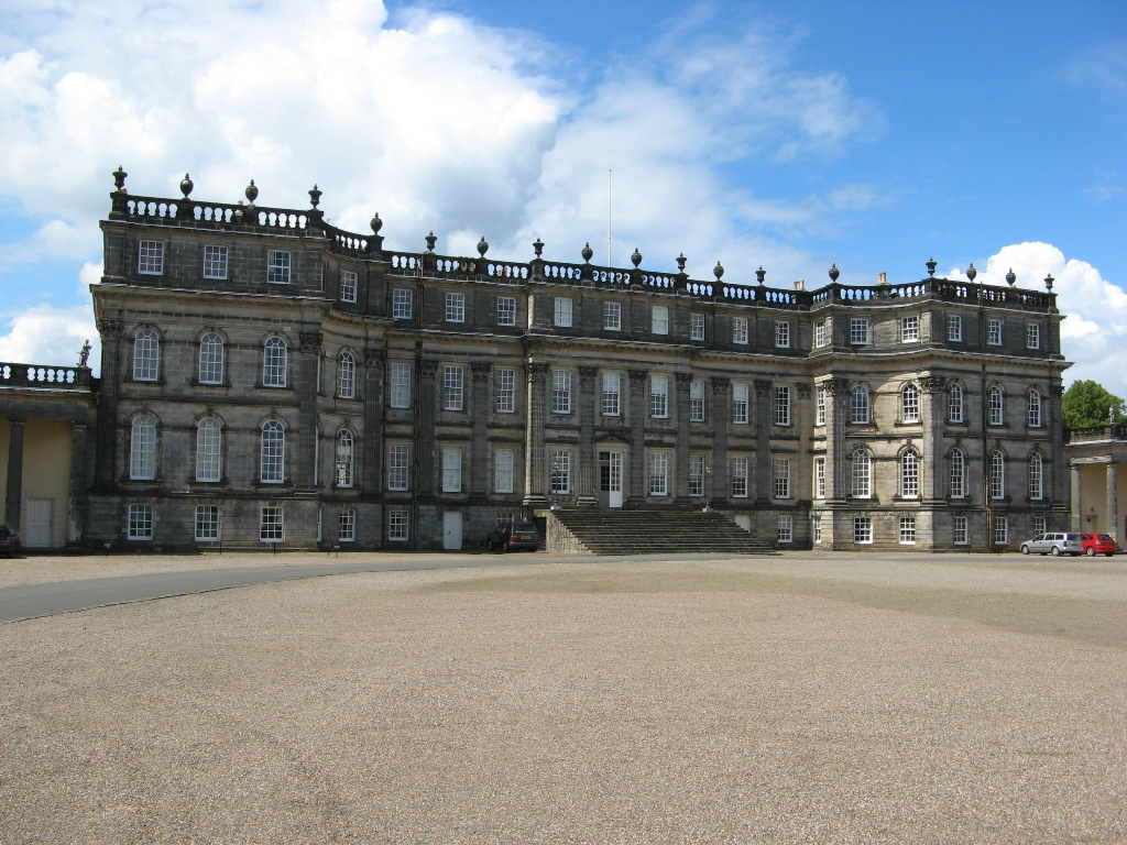 Hopetoun House, near South Queensferry, Scotland. Detail of Entrance front as designed by William Adam.